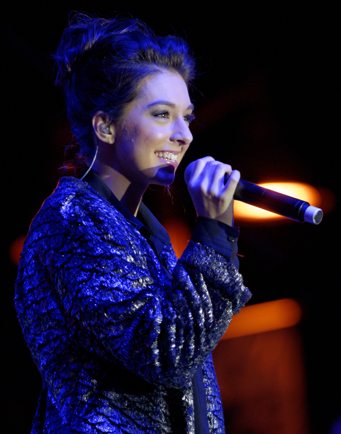 Crop of File:Christina Grimmie 2014.jpg